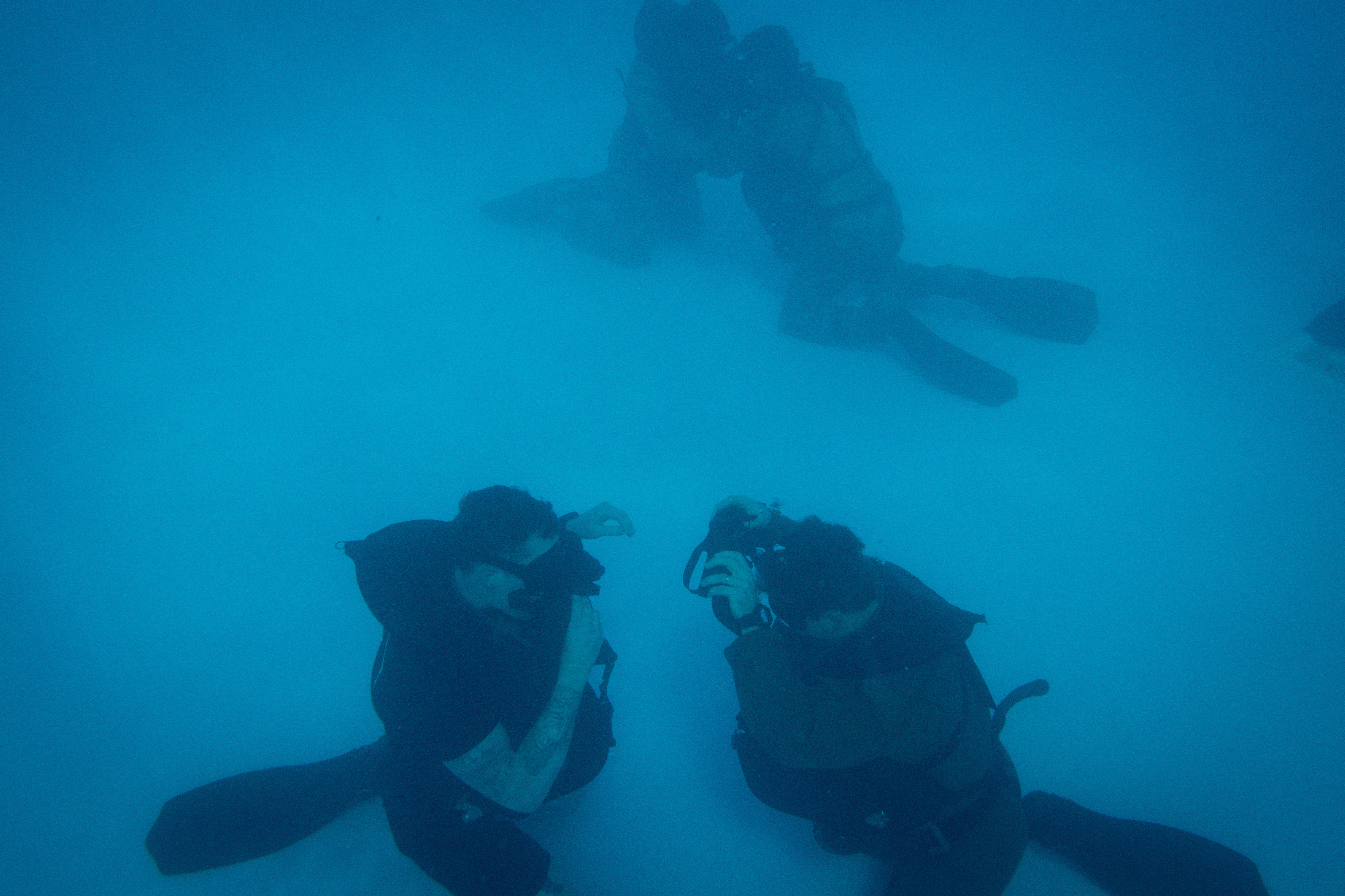 Special Forces soldiers assigned to the 7th Special Forces Group (Airborne) practice emergency breathing procedures at the bottom of Eglin Air Force Base’s East Gate Pool Jan. 20 while participating in a scuba recertification training session. The procedures required one soldier to aid the other by holding his breath while providing the distressed soldier his oxygen supply. The training refreshed the Green Beret’s skills at underwater operations while preparing them for future missions.